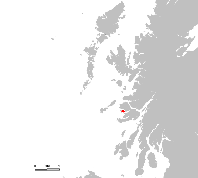 UK Ulva.PNG (Scotland, Hebrides)